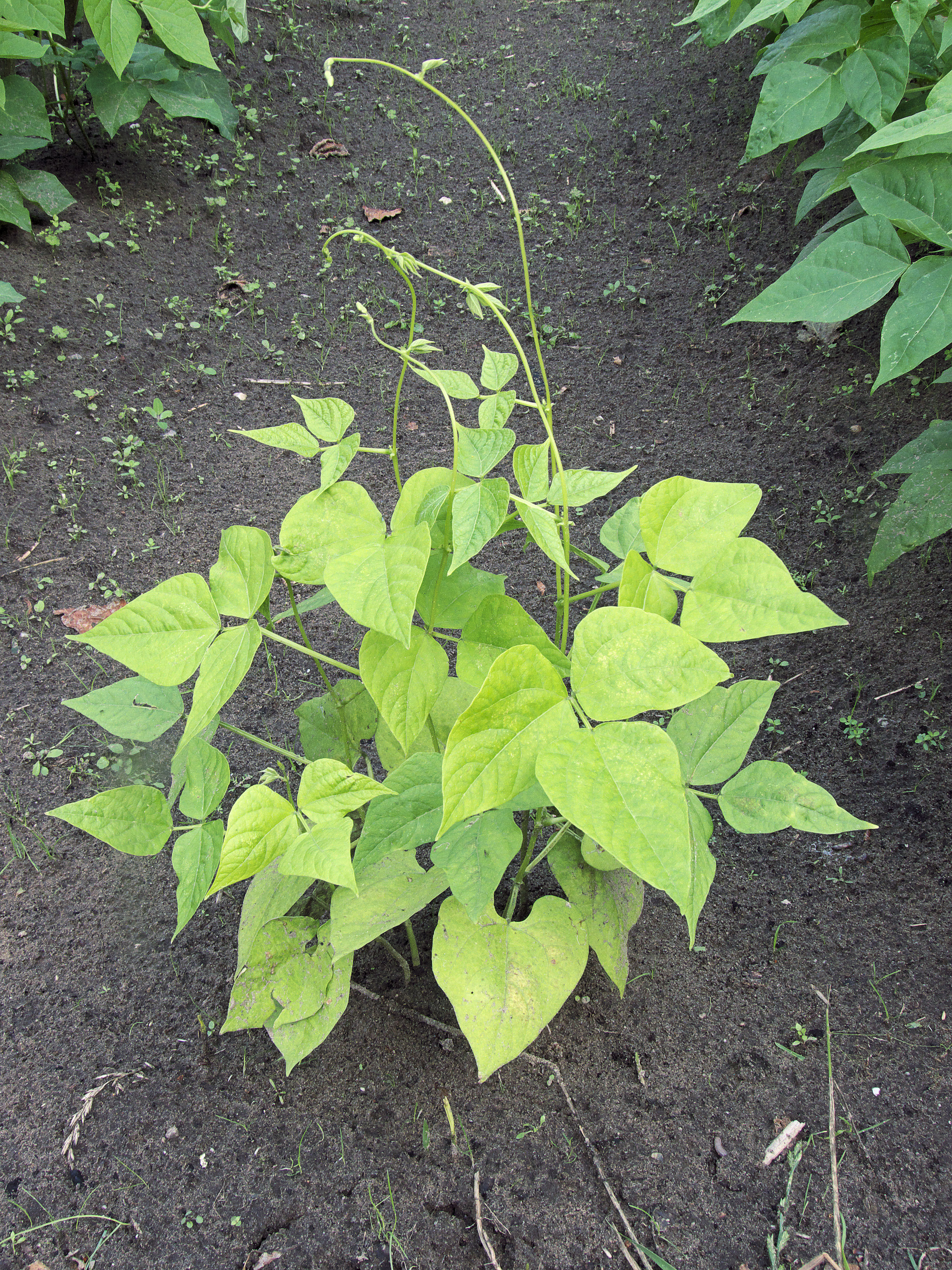 Phaseolus vulgaris nitrogen deficiency